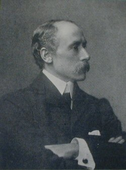 Scottish artist James Kay, photographed prior to 1909 (exact year unknown)